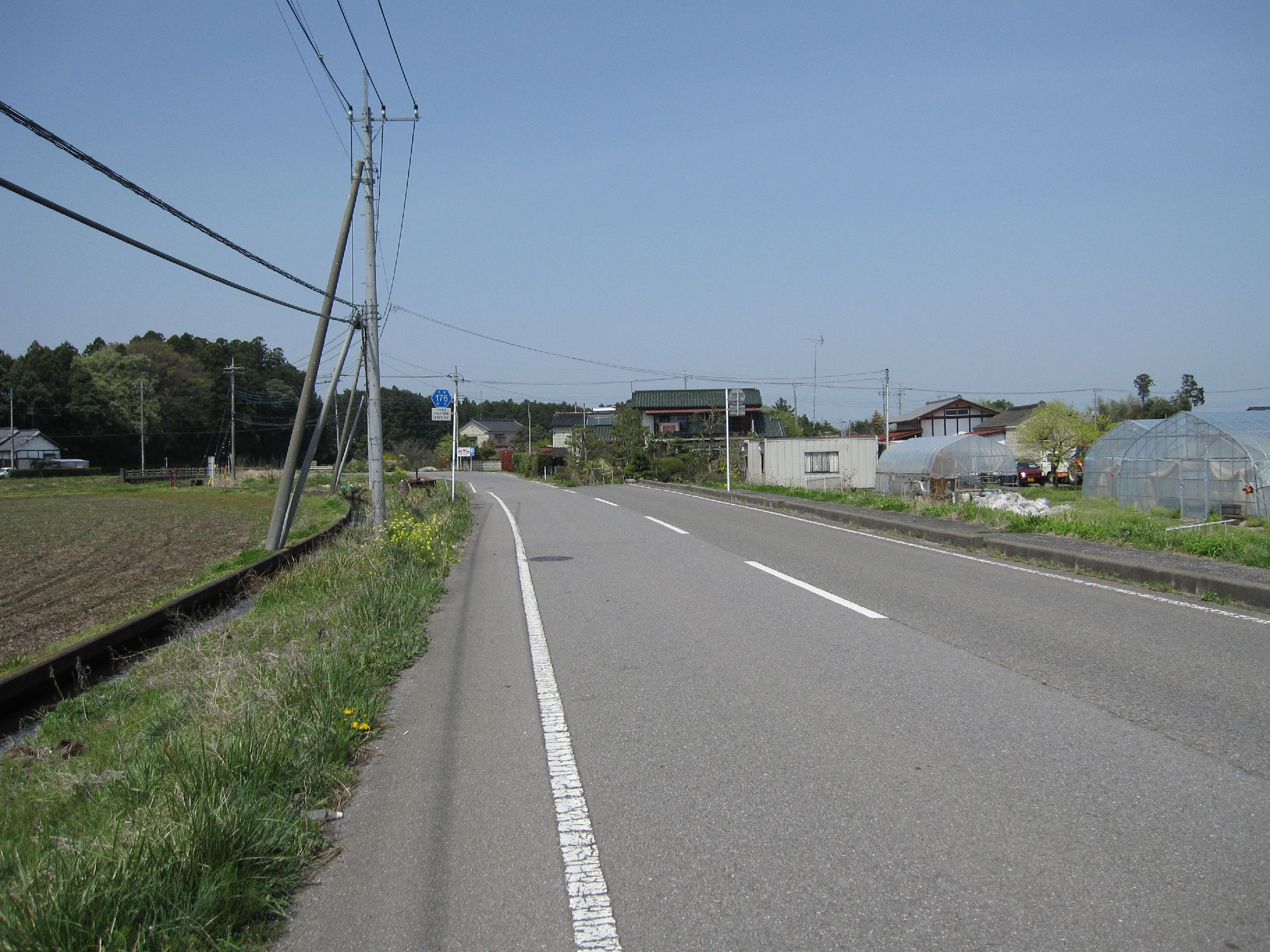 The Tochigi Prefectural Road Route 176 in Ota, Takanezawa Town